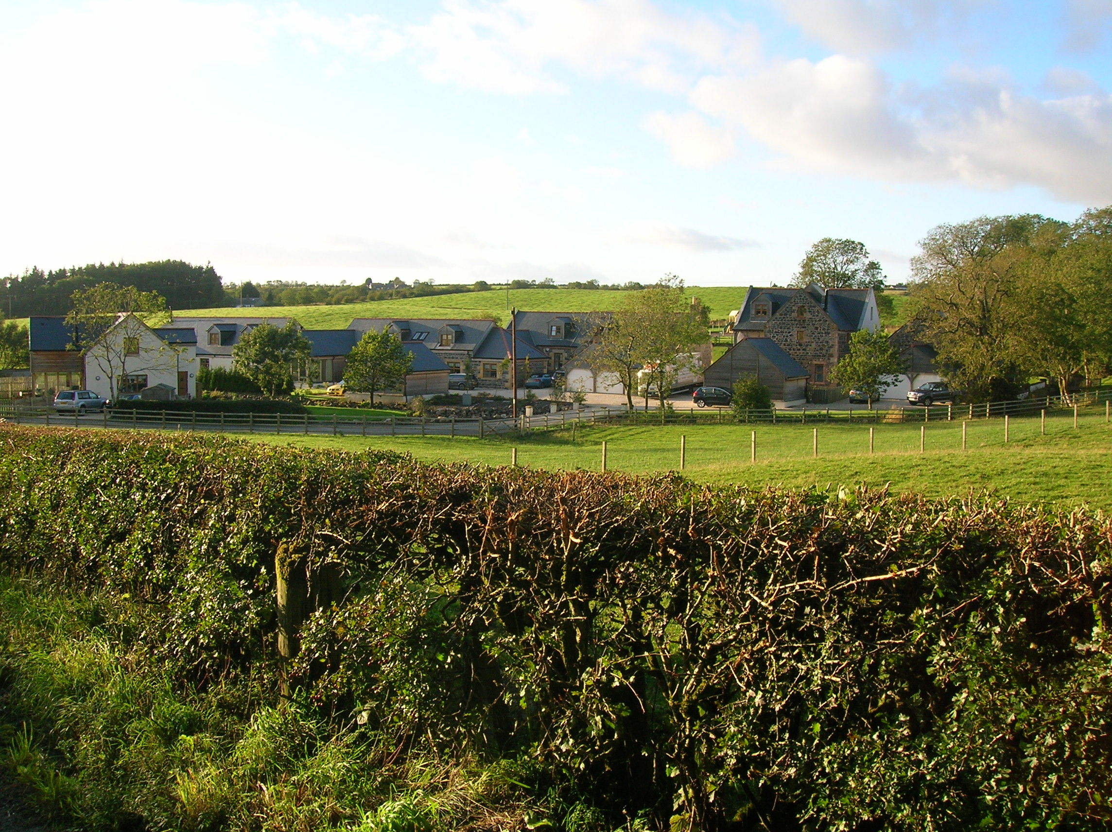 Perclewan Mill development, Dalrymple, Ayrshire, Scotland